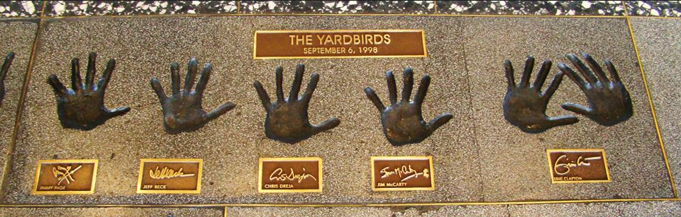 The Yardbirds Awards, Rock and Roll Hall of Fame from 1998 (Pic: 2014)